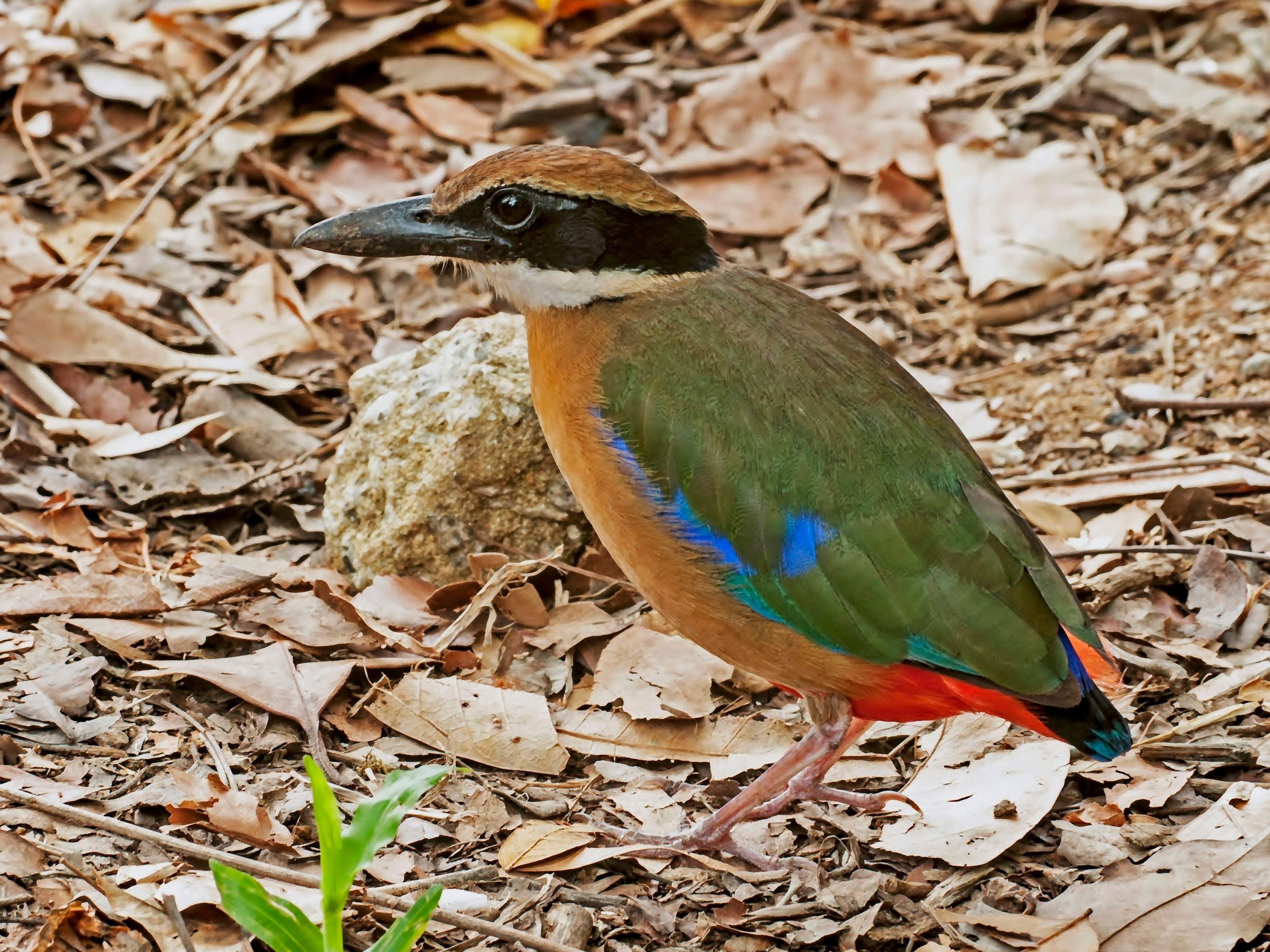 Mangrove Pitta (Pitta megarhyncha) at the Singapore Botanic Gardens.